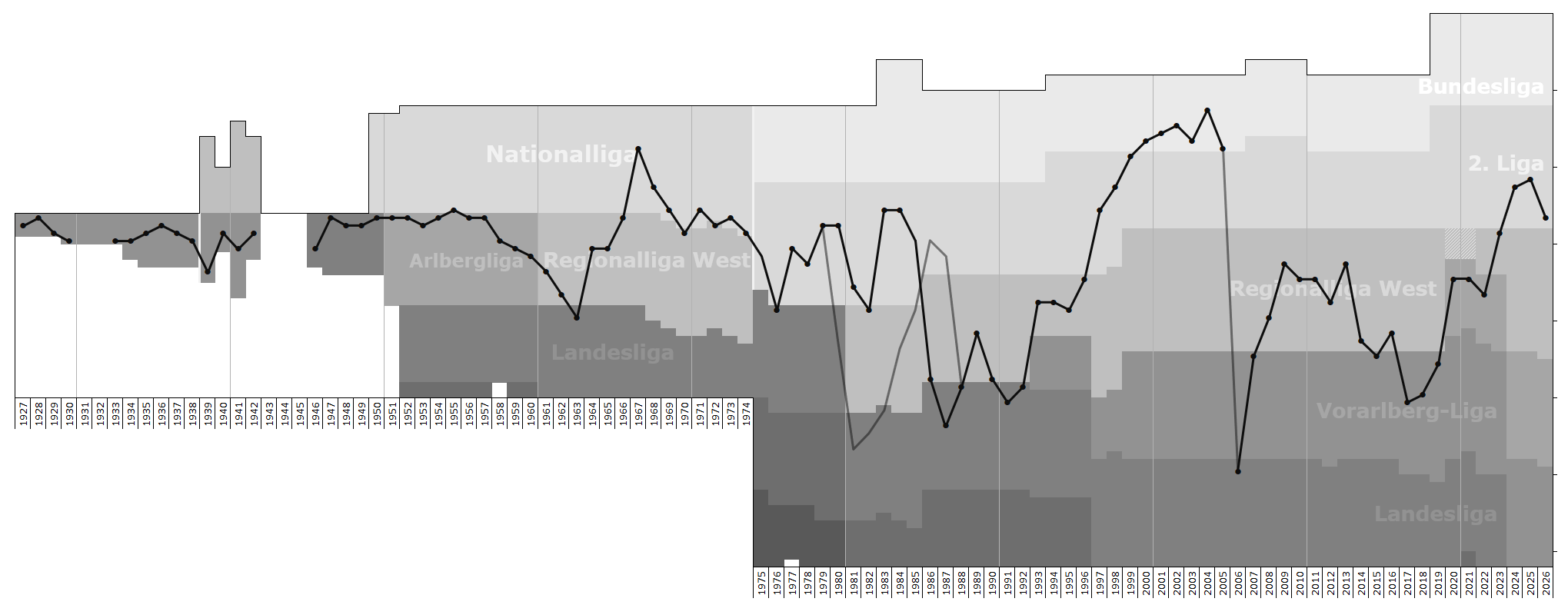 Chart of end-season table positions of SW Bregenz in the Austrian football league system. Data source: RSSSF, , regiowiki.at, vfv.at, wikipedia